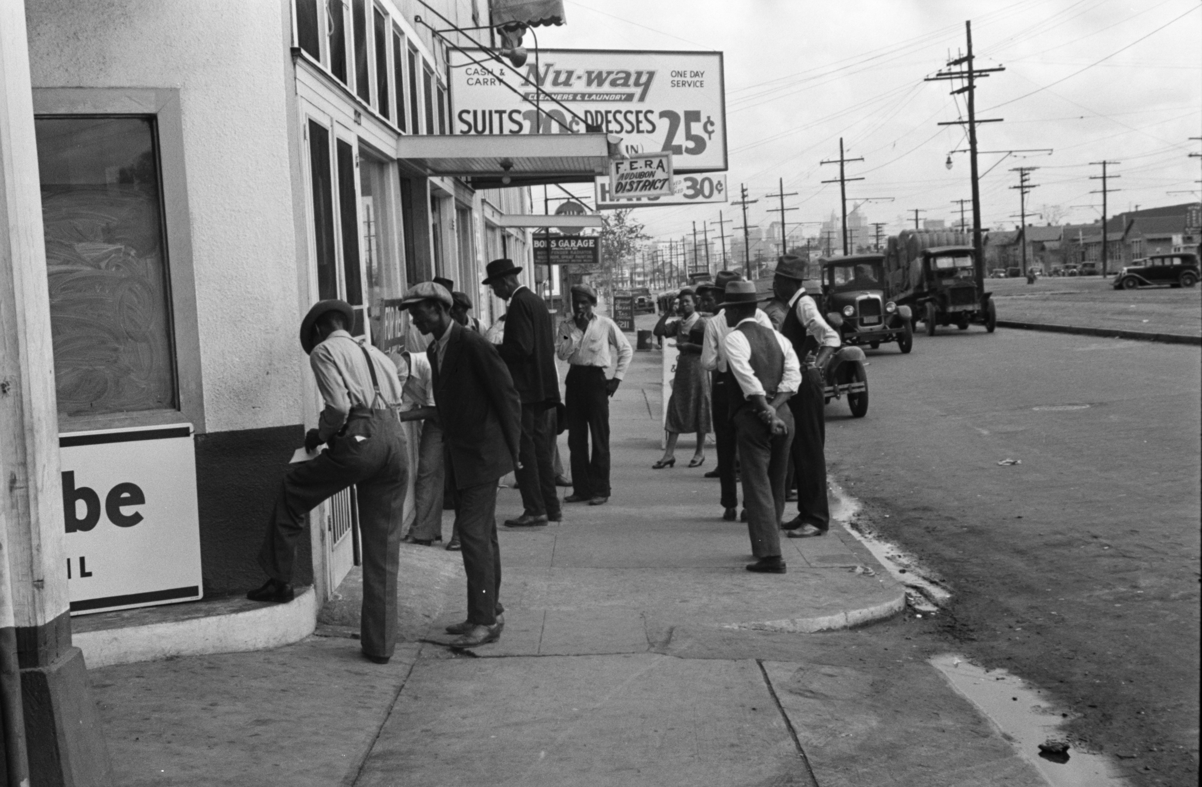 "Applicants waiting for jobs in front of FERA offices, New Orleans, Louisiana" 1935. (Federal Emergency Relief Administration) Location seems to be S. Claiborne Avenue between Washington Avenue and 4th Street, on the lakewards side of the street, looking downriver.